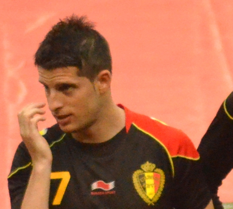 Kevin Mirallas before an international friendly against the United States.